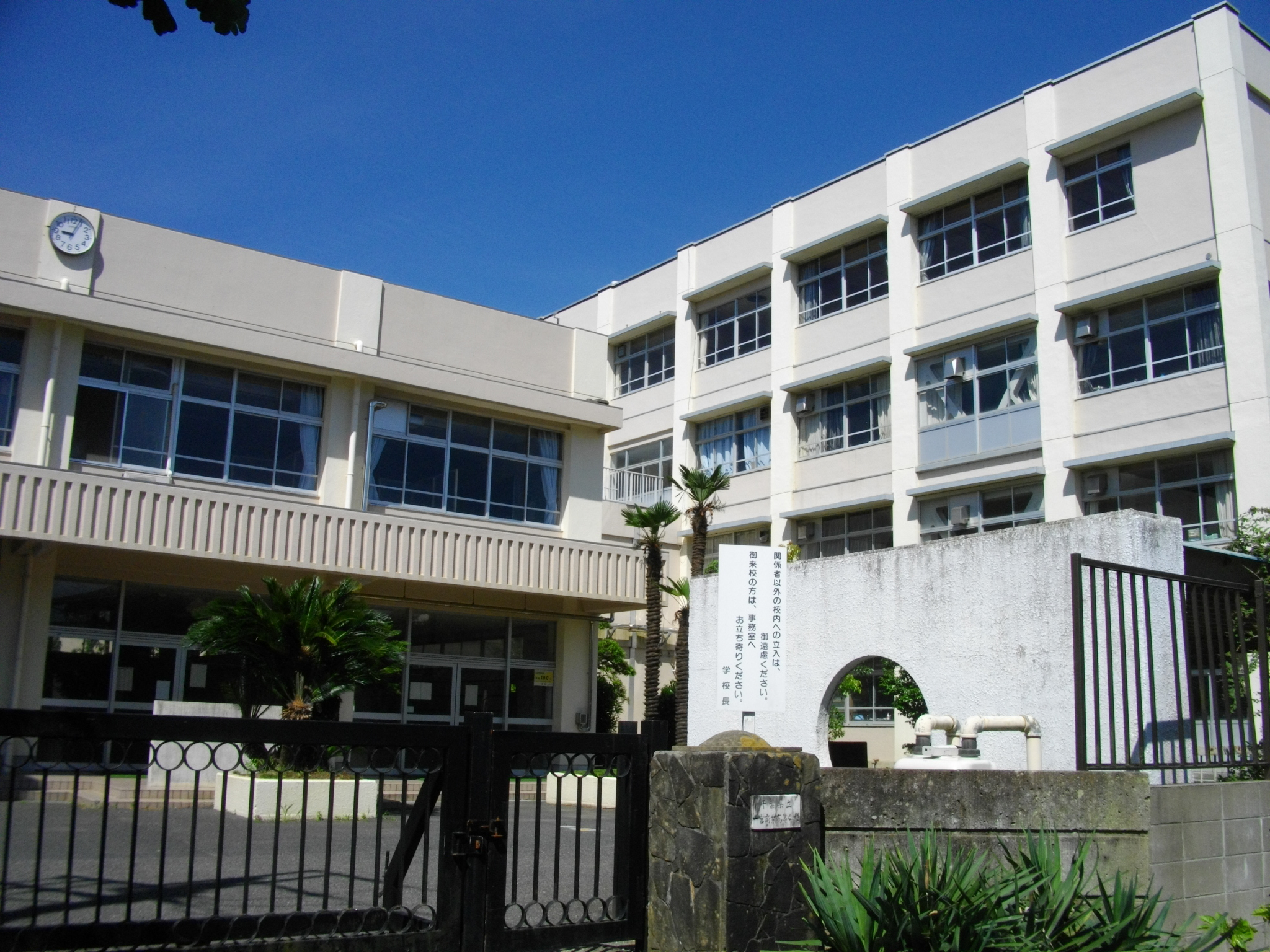 Ichinomiya Commercial High School